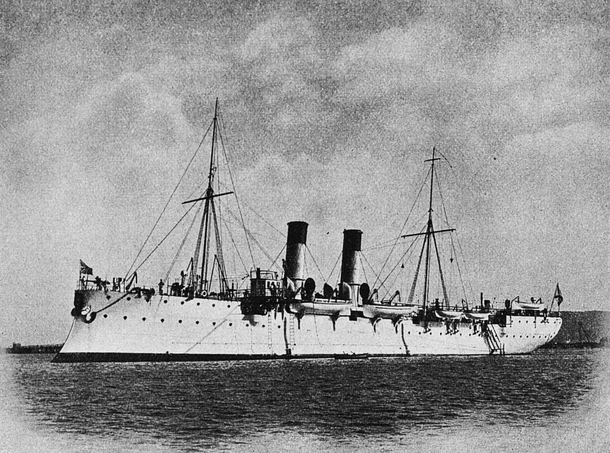 Minelayer Yenisey (1901-1904), The Russian Empire.